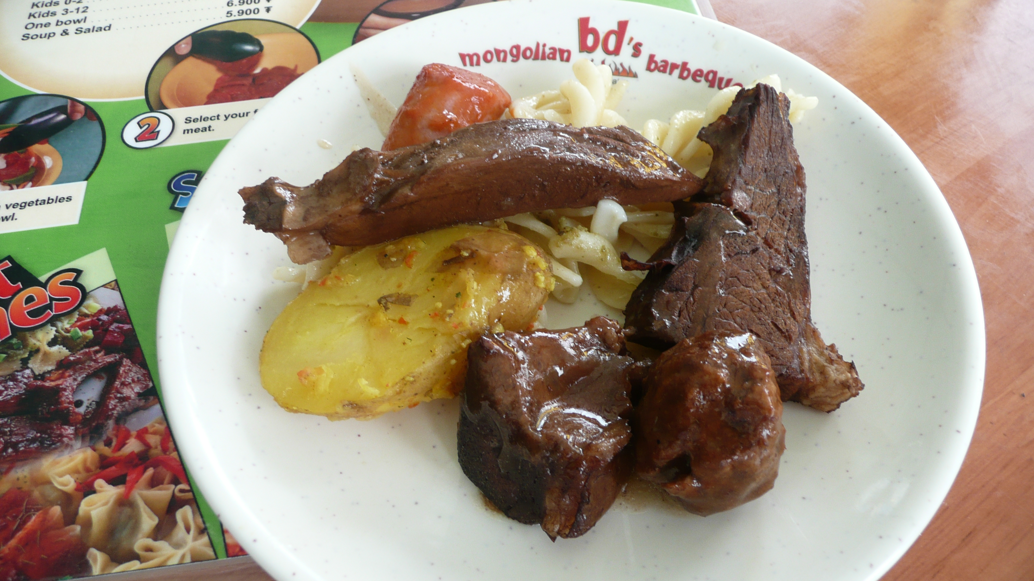 A meal at "BD's Mongolian Barbeque" restaurant in Ulaanbaatar. Despite the file name, the location, and the name of the restaurant, this has nothing at all to do with Mongolian cuisine, compare Mongolian barbecue.